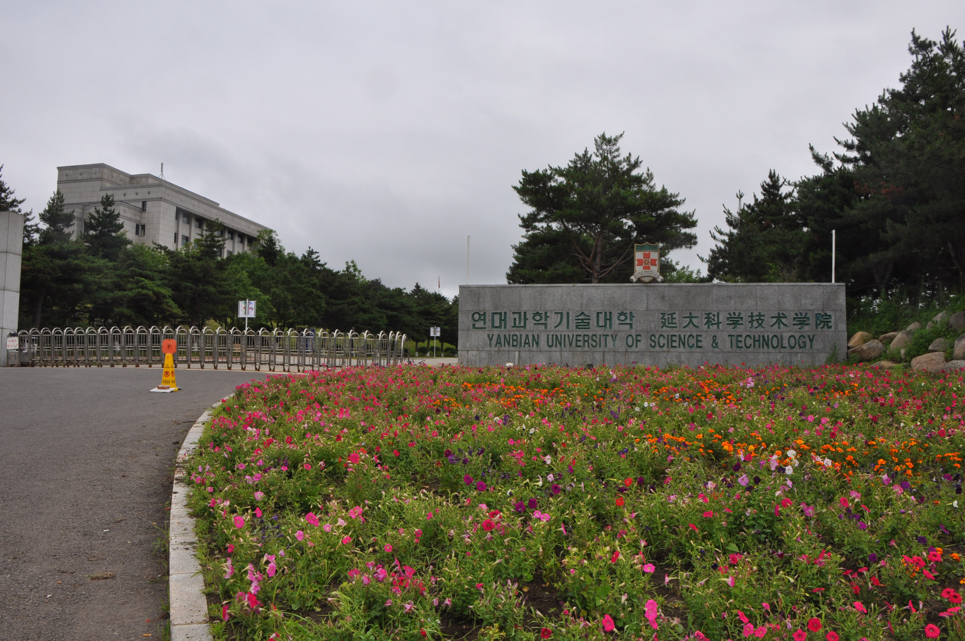 Yanbaian University of Science and Technology - Main Entrance